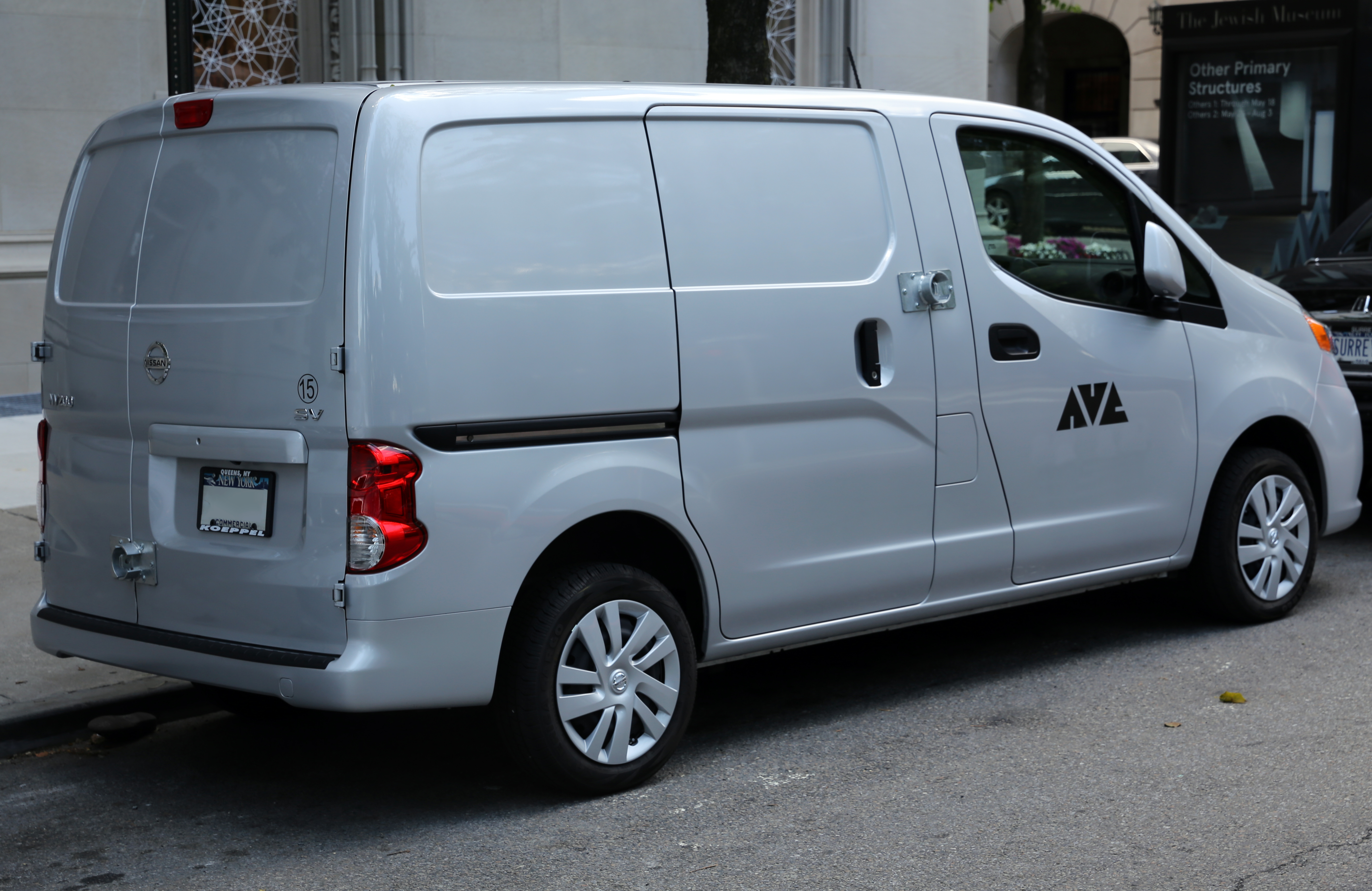 2014 Nissan NV200 SV van in Brilliant Silver metallic. This little guy is the best equipped version of the NV200, it has the same 131hp 2.0 litre inline-four and CVT transmission. Built in Mexico. For some reason the cargo doors are hinged opposite of LHD European market NV200s?